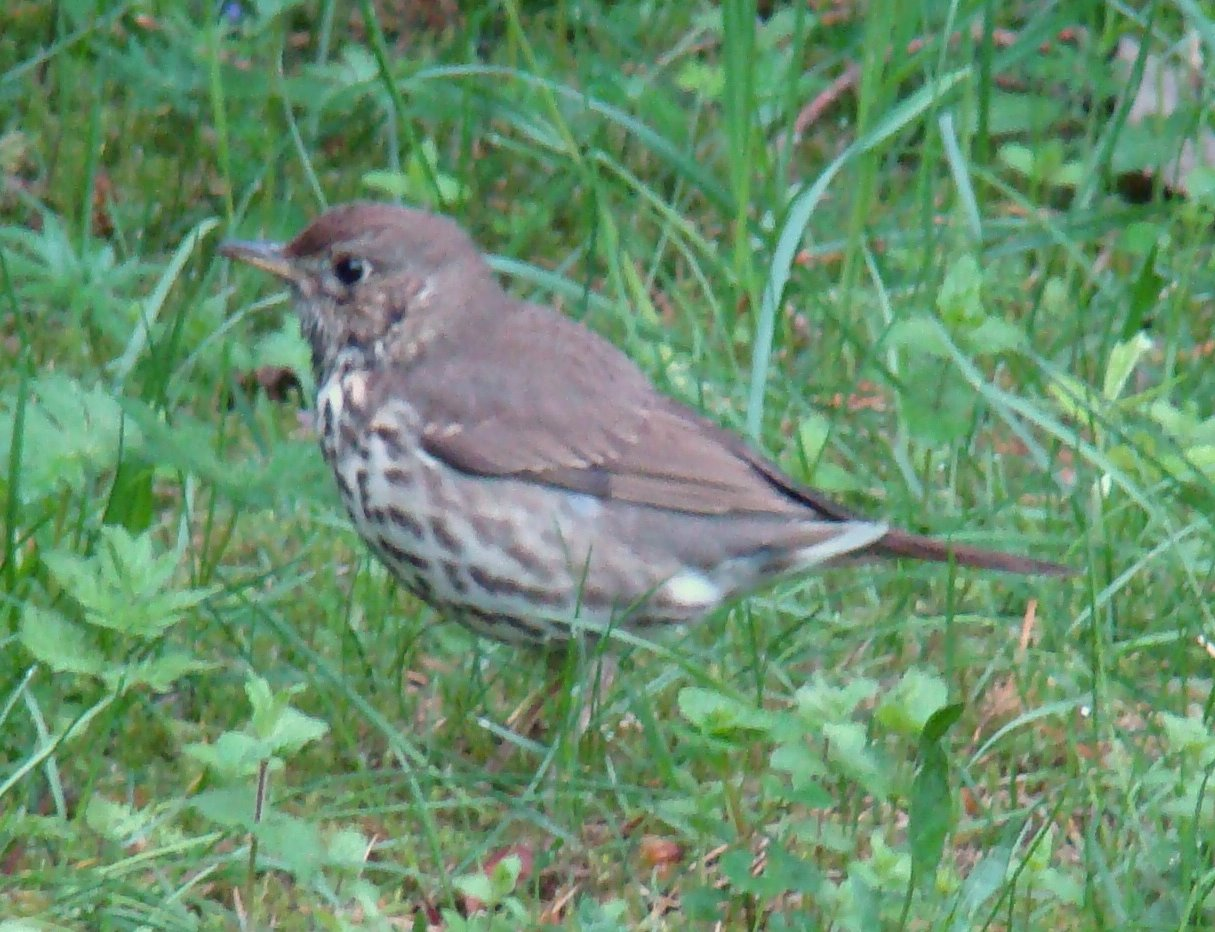 Photo of the Song Thrush (Turdus philomelos) in in Vingis park, Vilnius, Lithuania. A cropped version of Image:Song Thrush-Mindaugas Urbonas-2.jpg also on the commons.